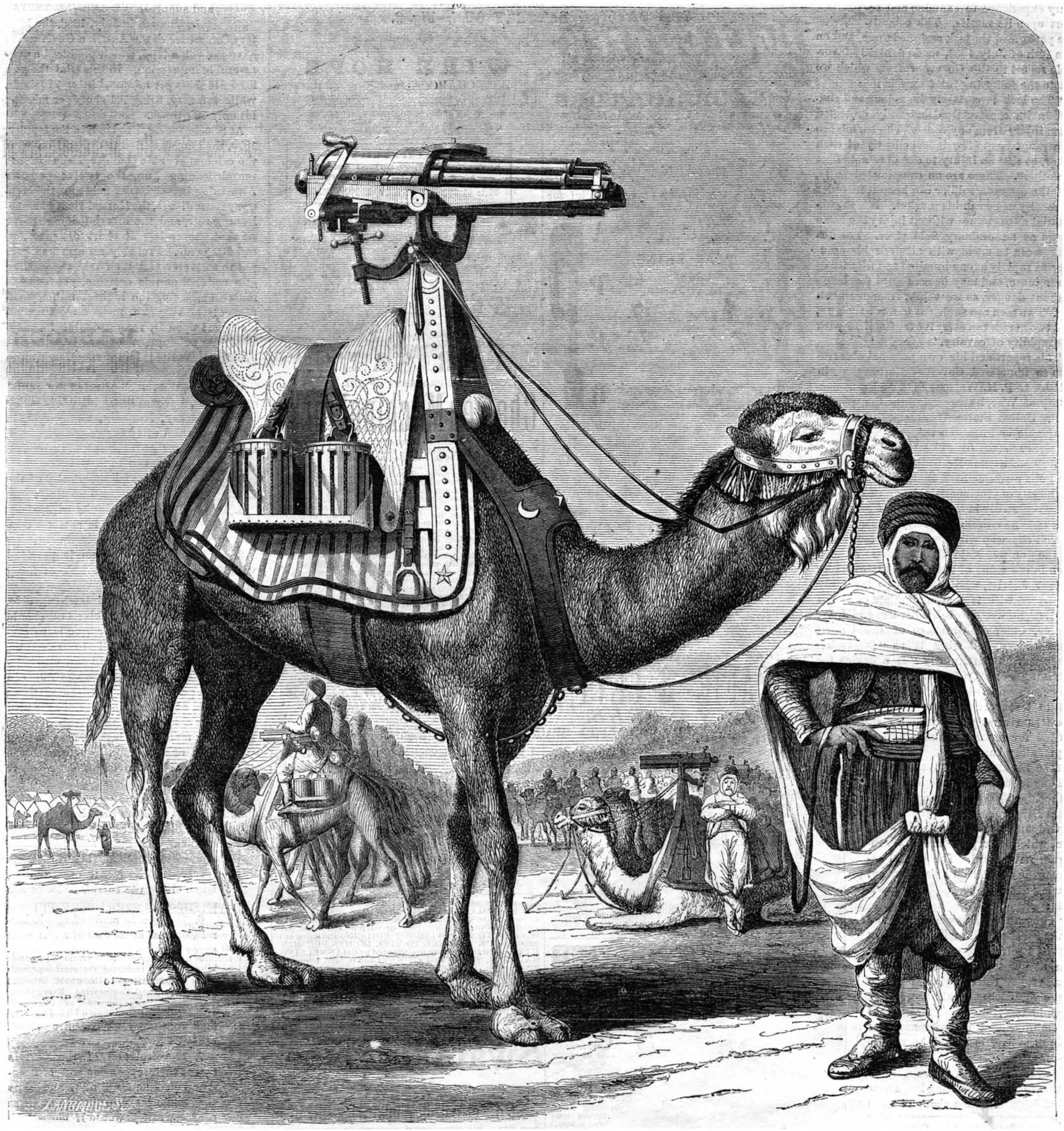 The front page of the Scientific American on March 2, 1872, had a story of a new model of the Gatling gun produced by Colt's Armory. It was called the battery gun and featured a Broadwell drum with 400 cartridges. Here it is shown in a proposed mount for camels (elephants were also considered).